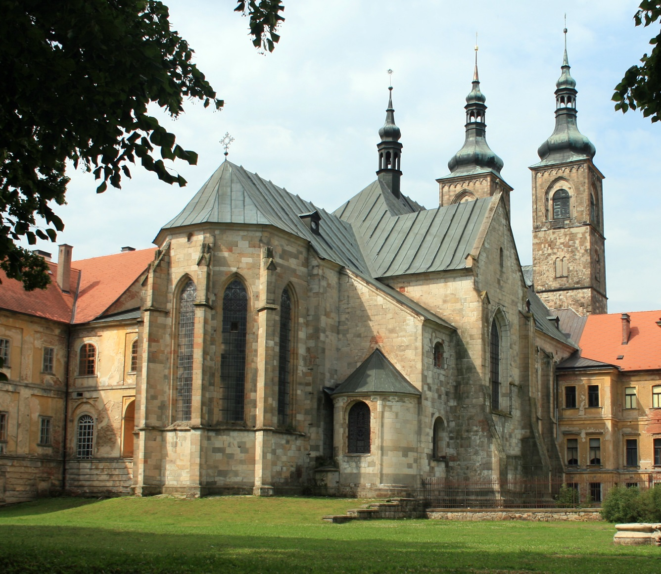 Church of the Teplá abbey, Bohemia, Czech Republic